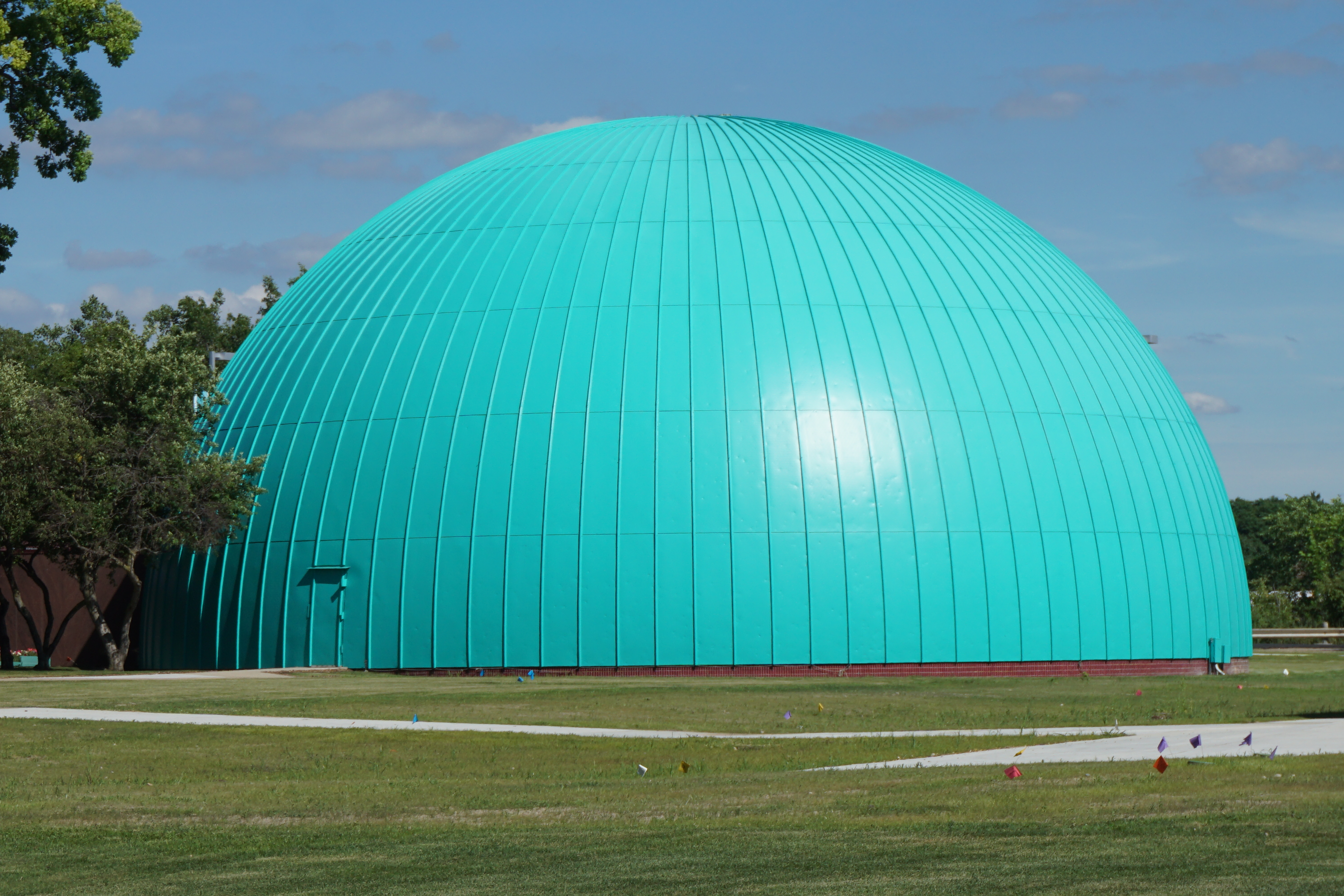 The Robert T. Longway Planetarium in Flint, Michigan (United States).